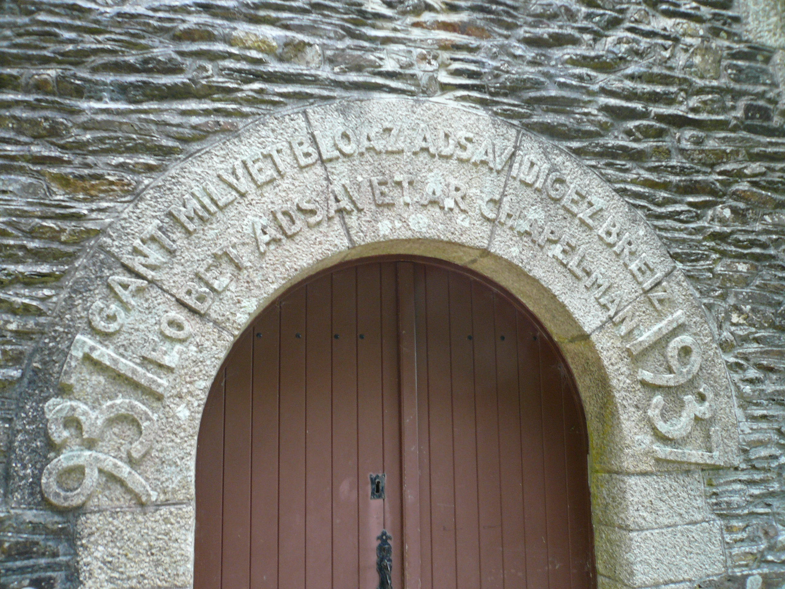 Southern door of Chapel of Coat Quéau, Scrignac, Finistère, Britanny, France